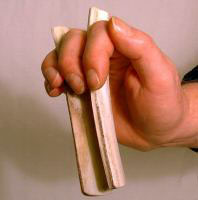 Bones musical instr.